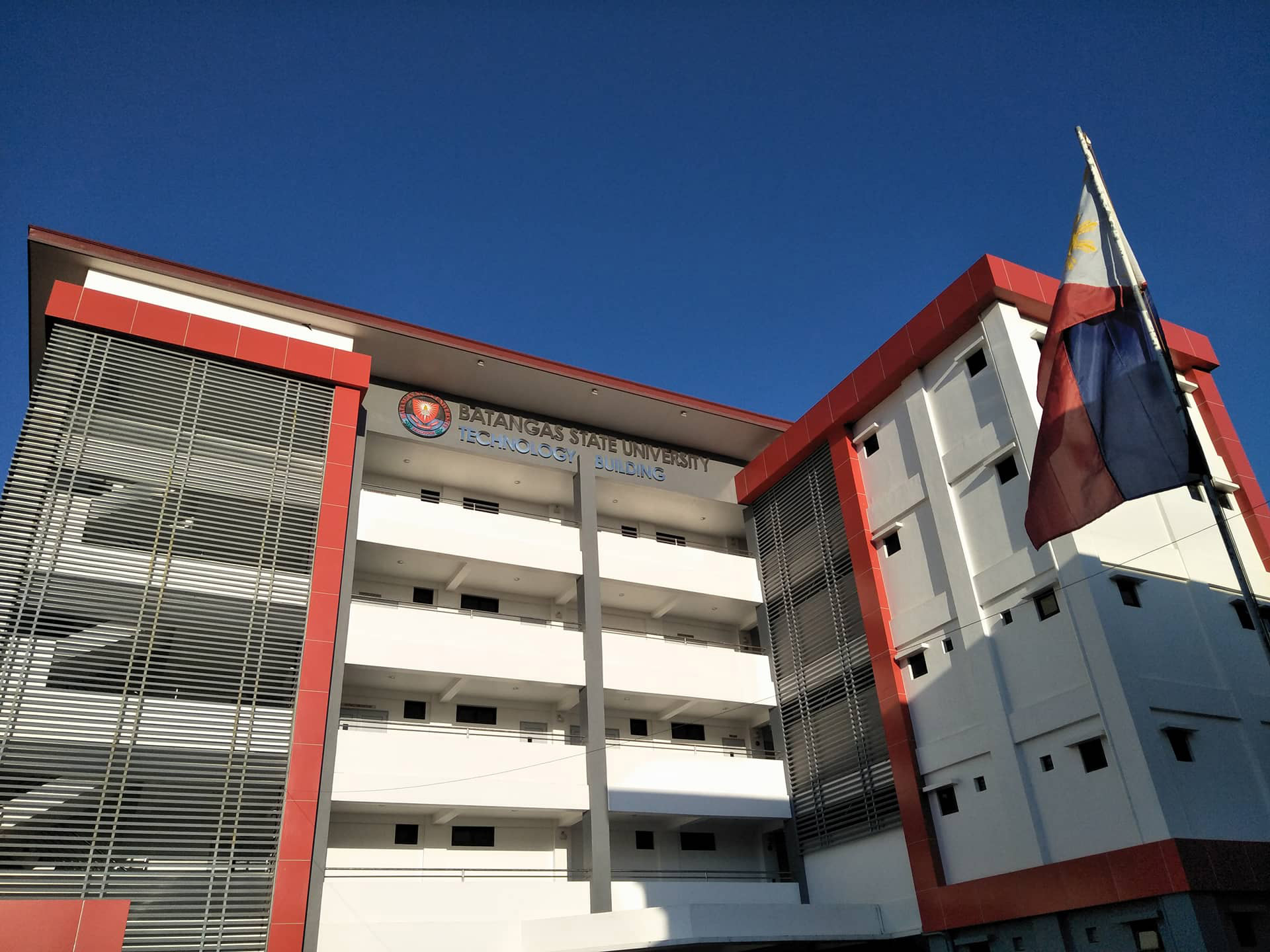 BatStateU Lemery